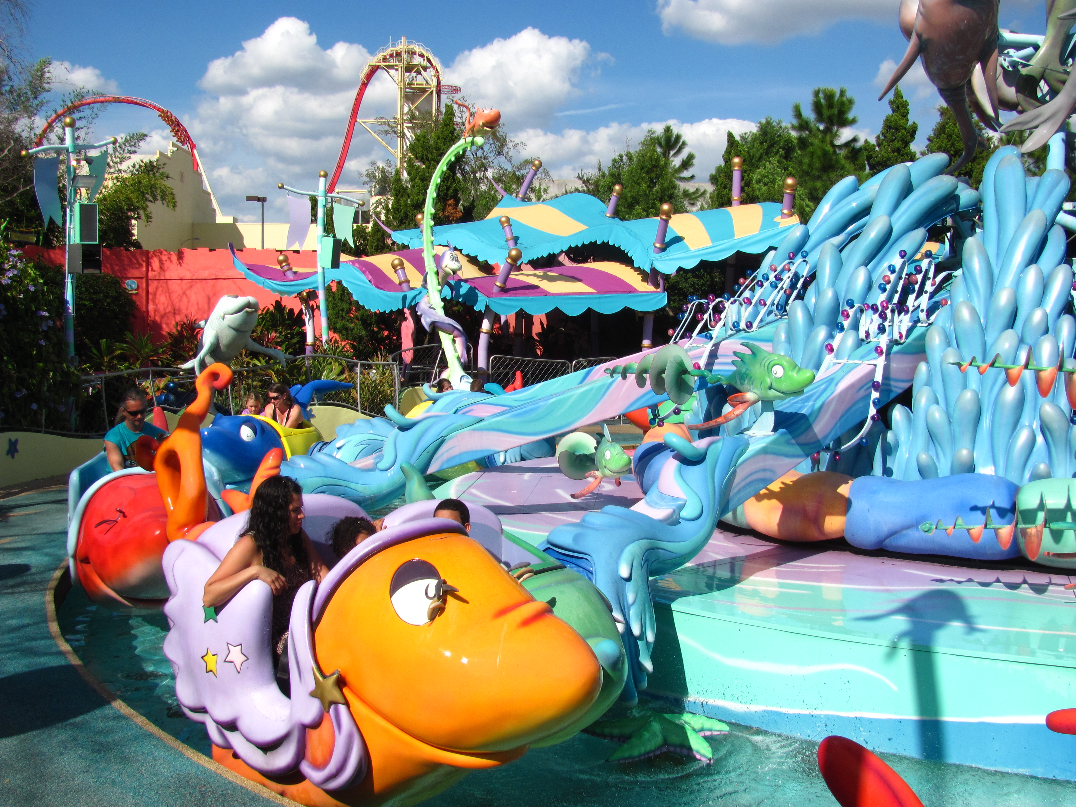 One Fish Two Fish Red Fish Blue Fish